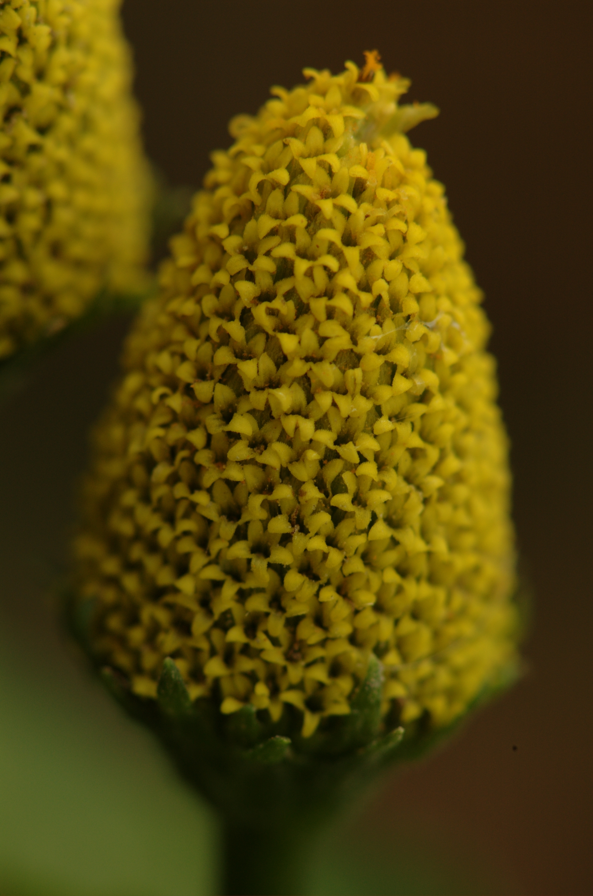 Spilanthes oleracea - Ploufragan october 2006 - flower